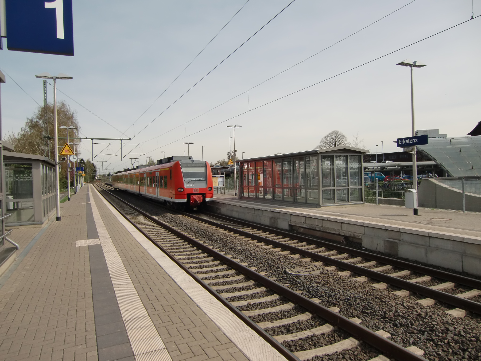 Train station in Germany